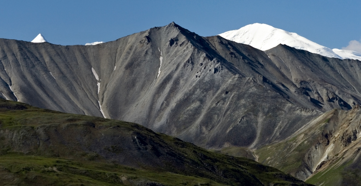 Mt. Eielson summit detail. Silverthrone behind, right.